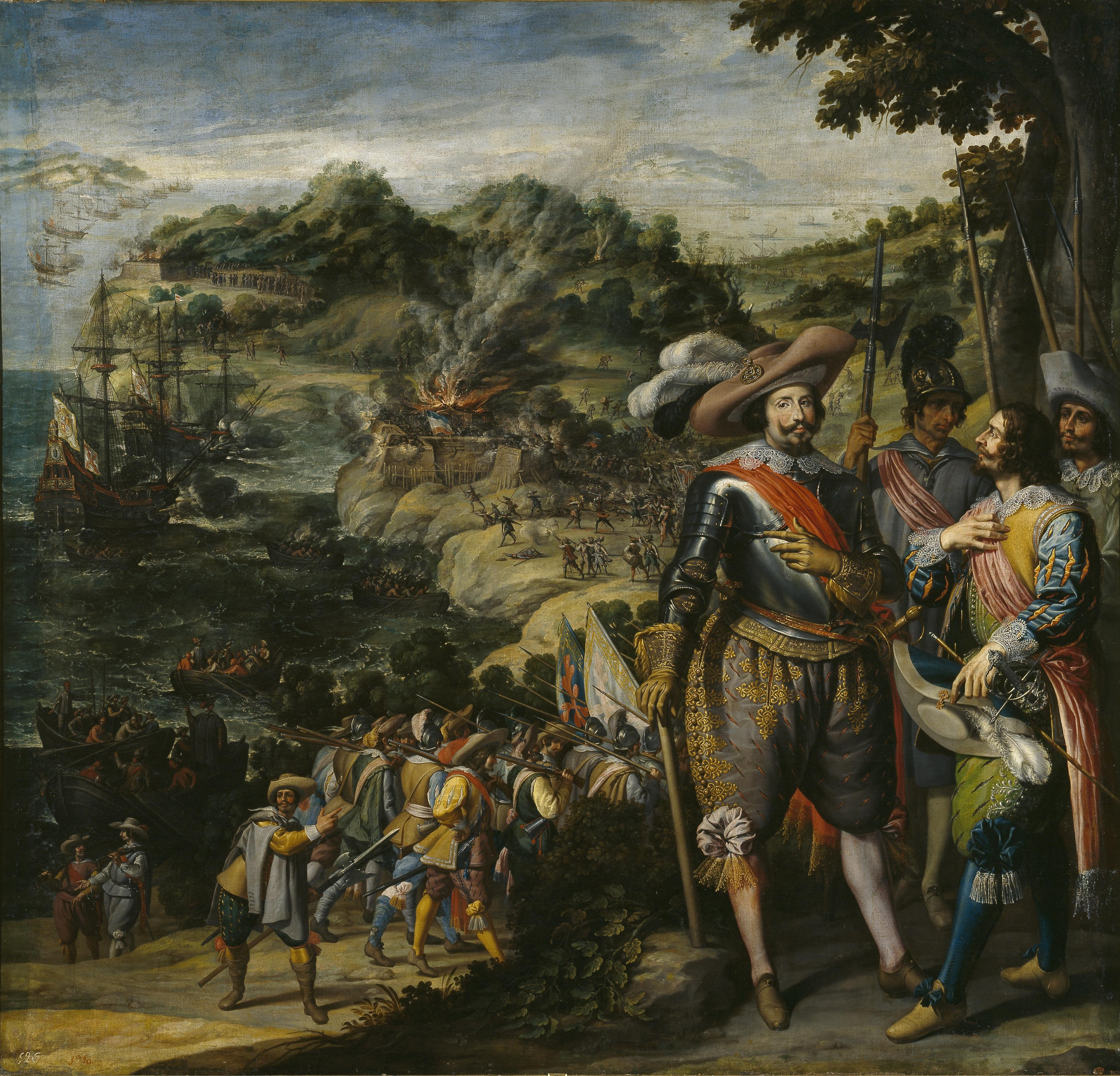 The spanish capture of Saint Kitts by Don Fadrique de Toledo in 1629.